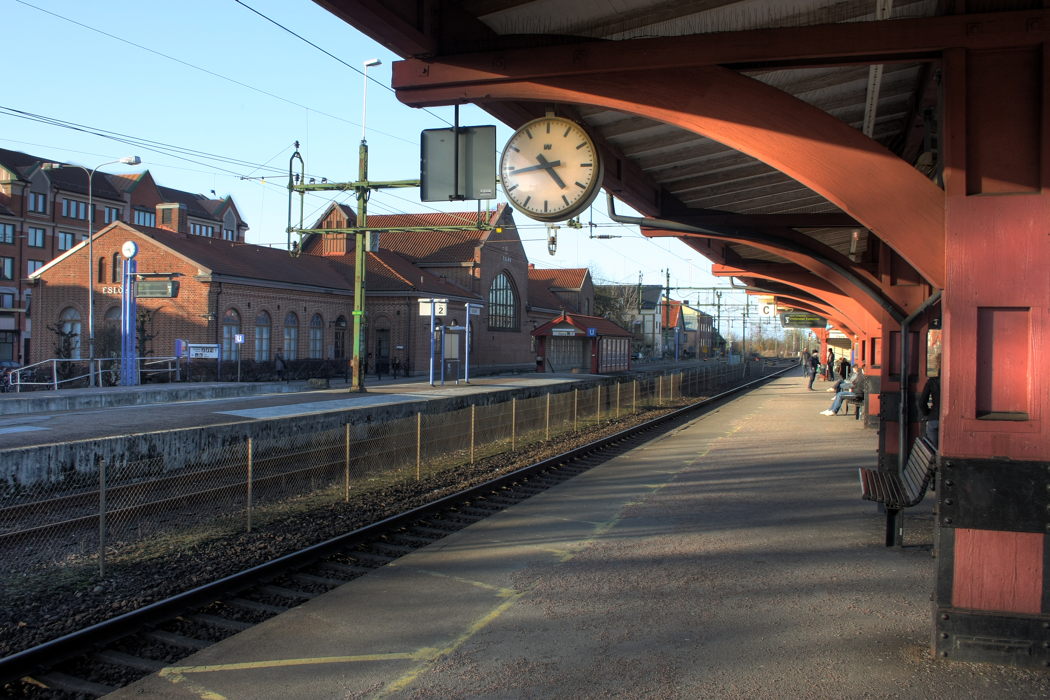 Eslöv train station in Eslöv, Sweden